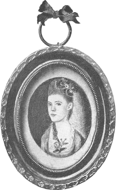 Minature of Colonial diarist Anna Green Winslow.